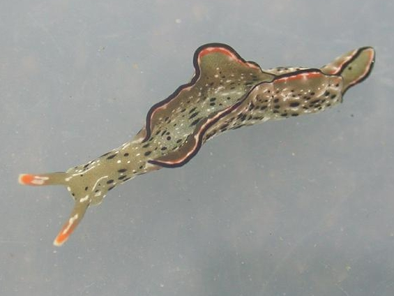 Elysia ornata (Swainson, 1840) in Tenjin-zaki, Tanabe city, Wakayama prefecture, Japan